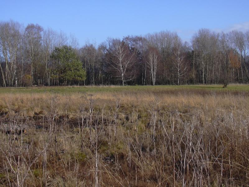 Moorland near Schopfloch, Germany